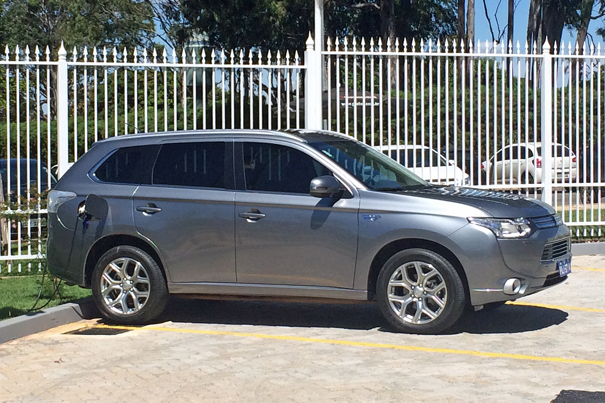 Mitsubishi Outlander PHEV charging, Brasilia, Brazil